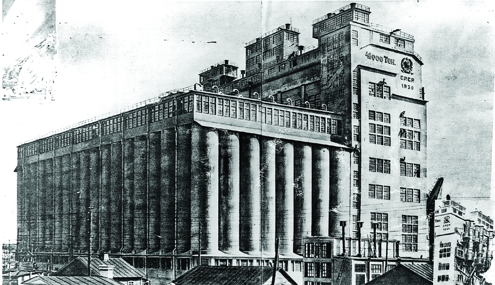 Grain elevator in Nikolayev (Ukrainian SRR) built in 1930.